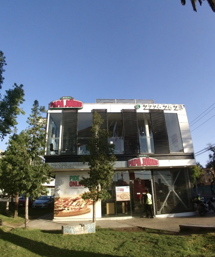 Papa Johns Ñuñoa